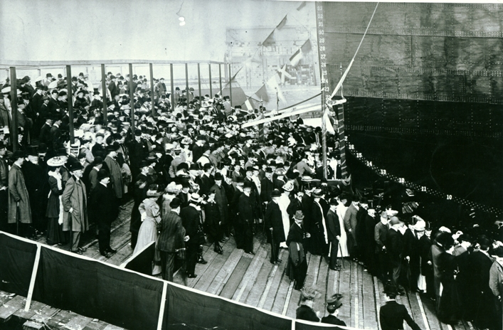 People attending the official launch party of the Mauretania. Built by the shipbuilders Swan Hunter and Wigham Richardson Ltd, at the Wallsend shipyard, RMS MAURETANIA was one of the most famous ships ever built on Tyneside. Ref: TWAS:DS.SWH/4/PH/7/6/6 (Copyright) We're happy for you to share this digital image within the spirit of The Commons. Please cite 'Tyne & Wear Archives & Museums' when reusing. Certain restrictions on high quality reproductions and commercial use of the original physical version apply though; if you're unsure please . To purchase a hi-res copy please quoting the title and reference number.